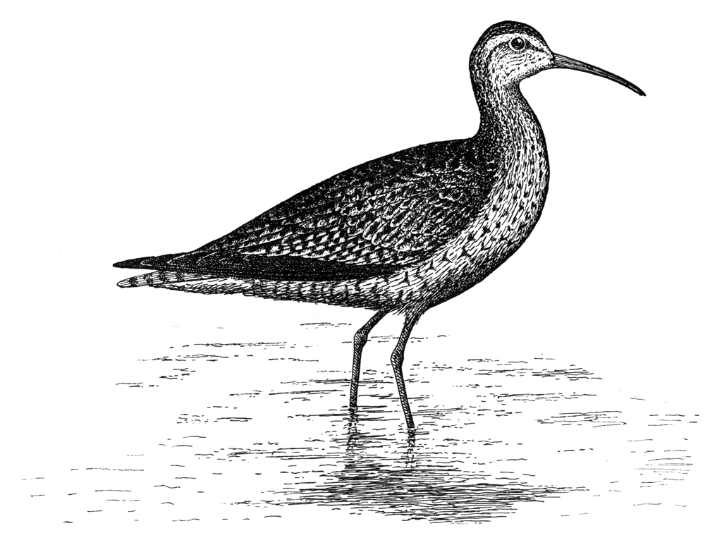 Eskimo Curlew, Numenius borealis, woodcut